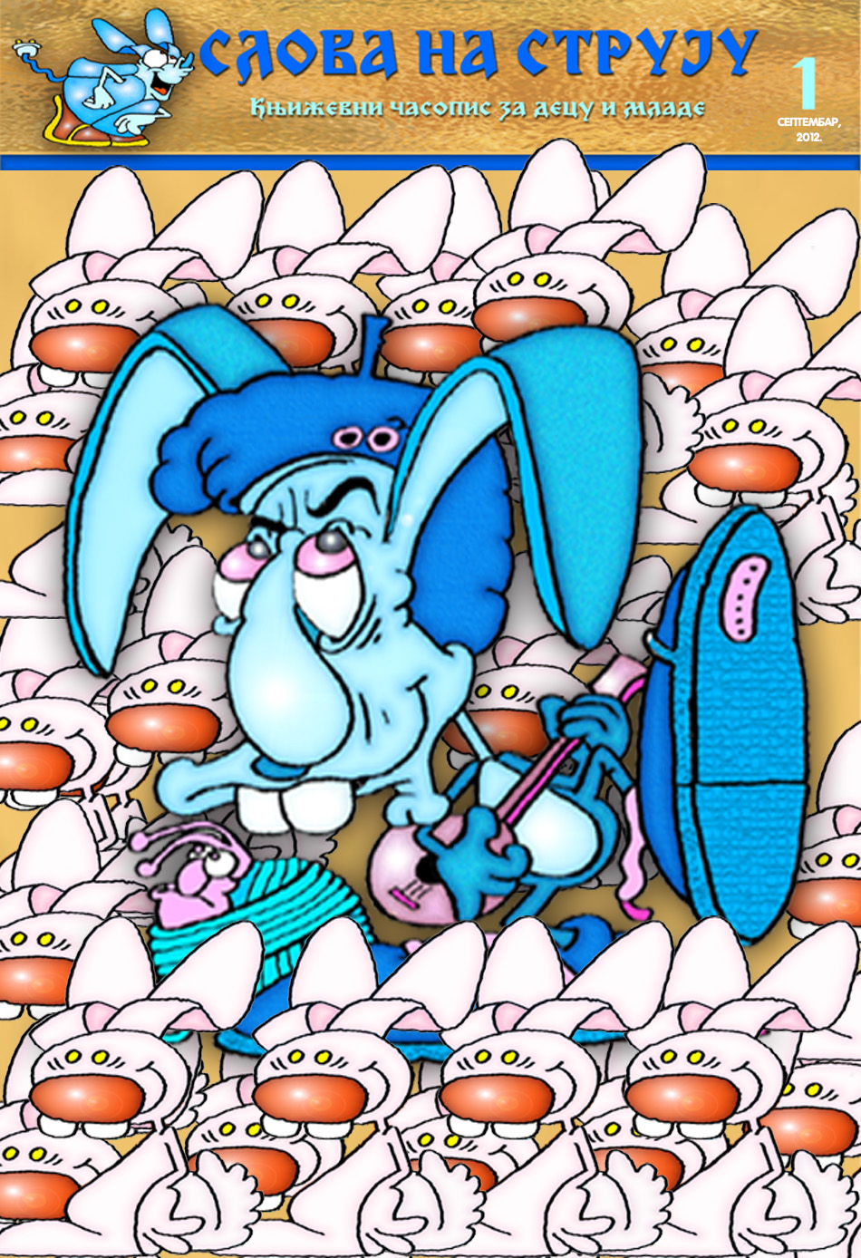 Front page Slova na struju, children magazine, publish by Public Library Radislav Nikčević Jagodina, Serbia, illustrator by Peđa Trajković